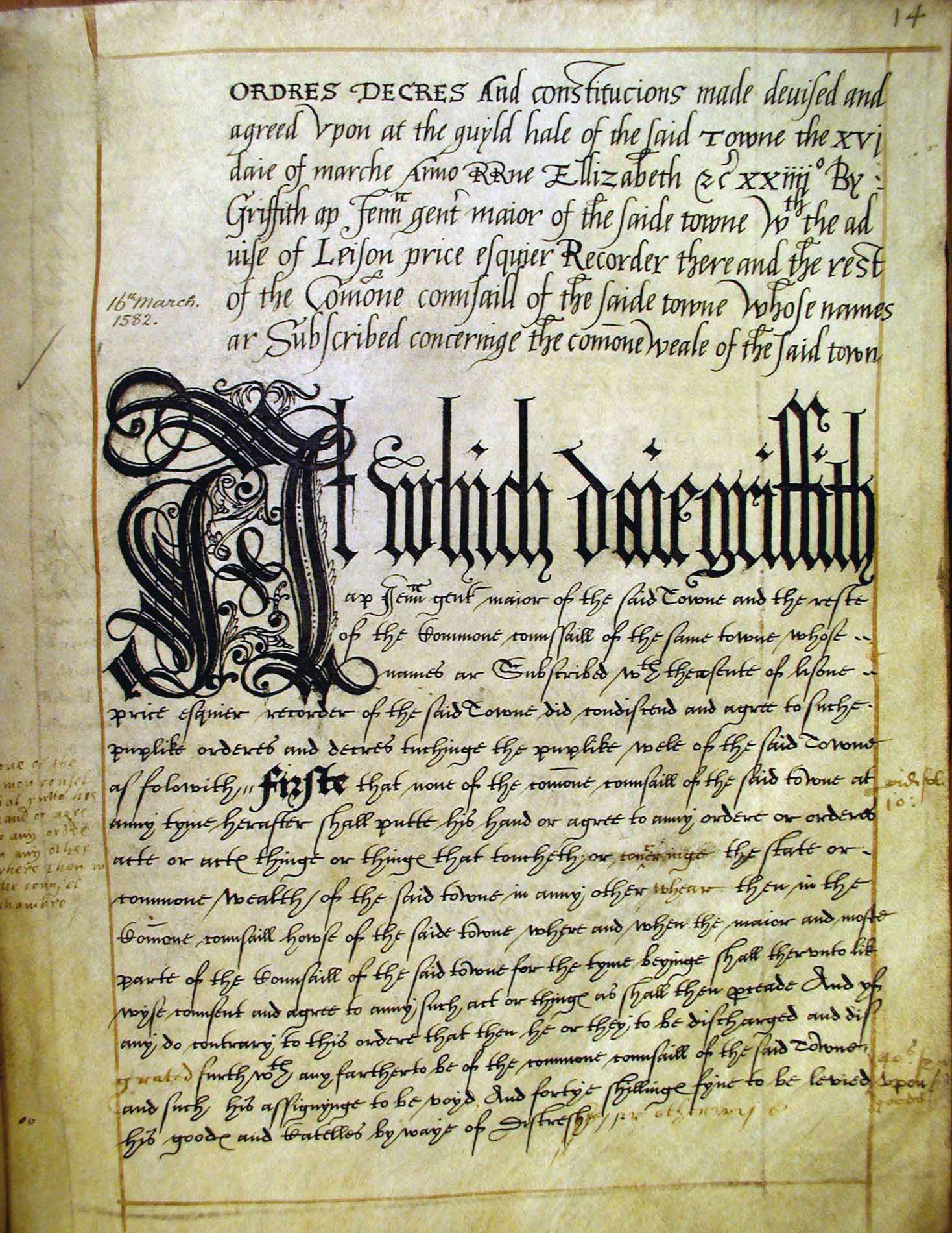 The first extent minute book of Carmarthen borough